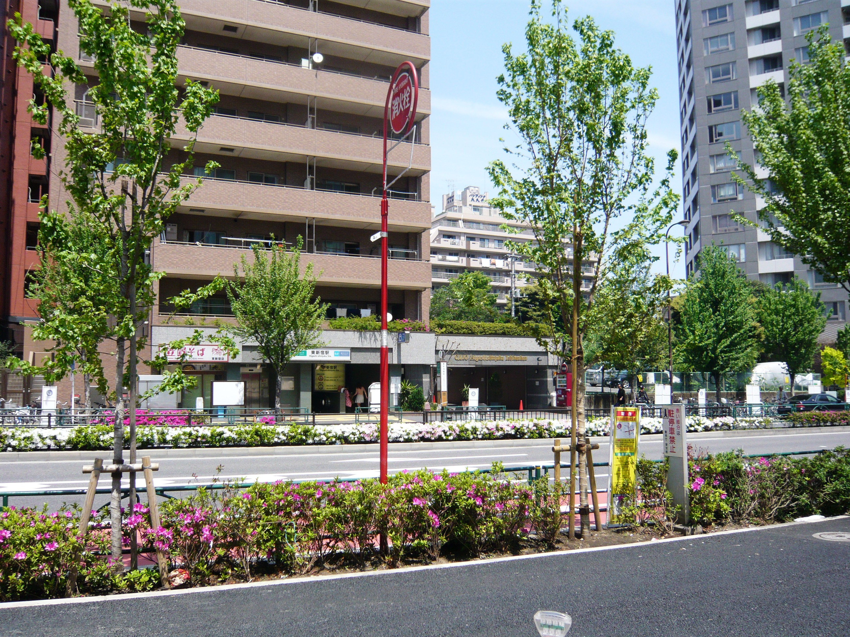 A2 Exit of Higashi Shinjyuku Station Date: 04.29.2012